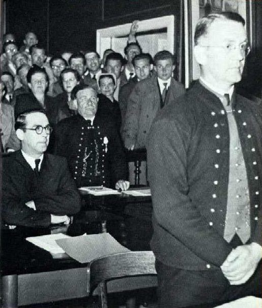 The Logting salutes the Danish king in 1955. Erlendur Patursson sits in protest, while Hans Iversen (back to the right of Patursson) and Hanus við Høgadalsá (nearest camera) – among others – are standing.